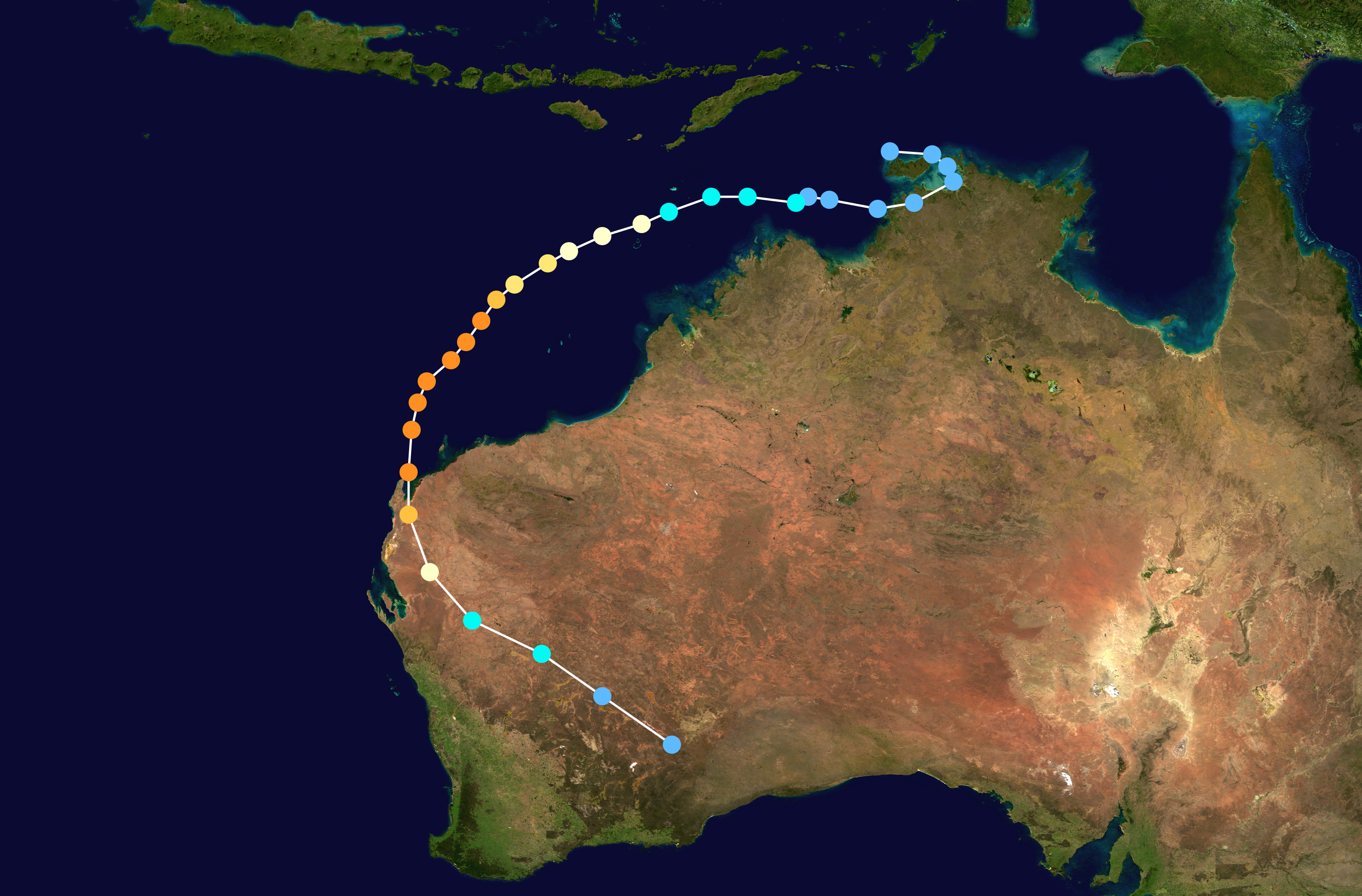 Cyclone Vance (1999) track. Uses the color scheme from the Saffir-Simpson Hurricane Scale.